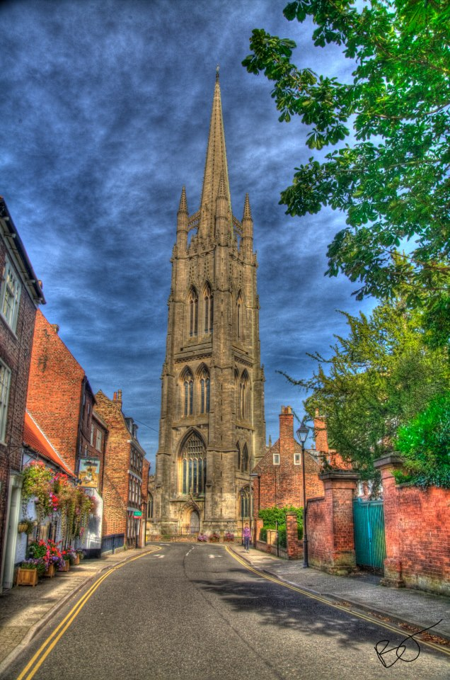 HDR Style image of St James church louth, lincolnshire